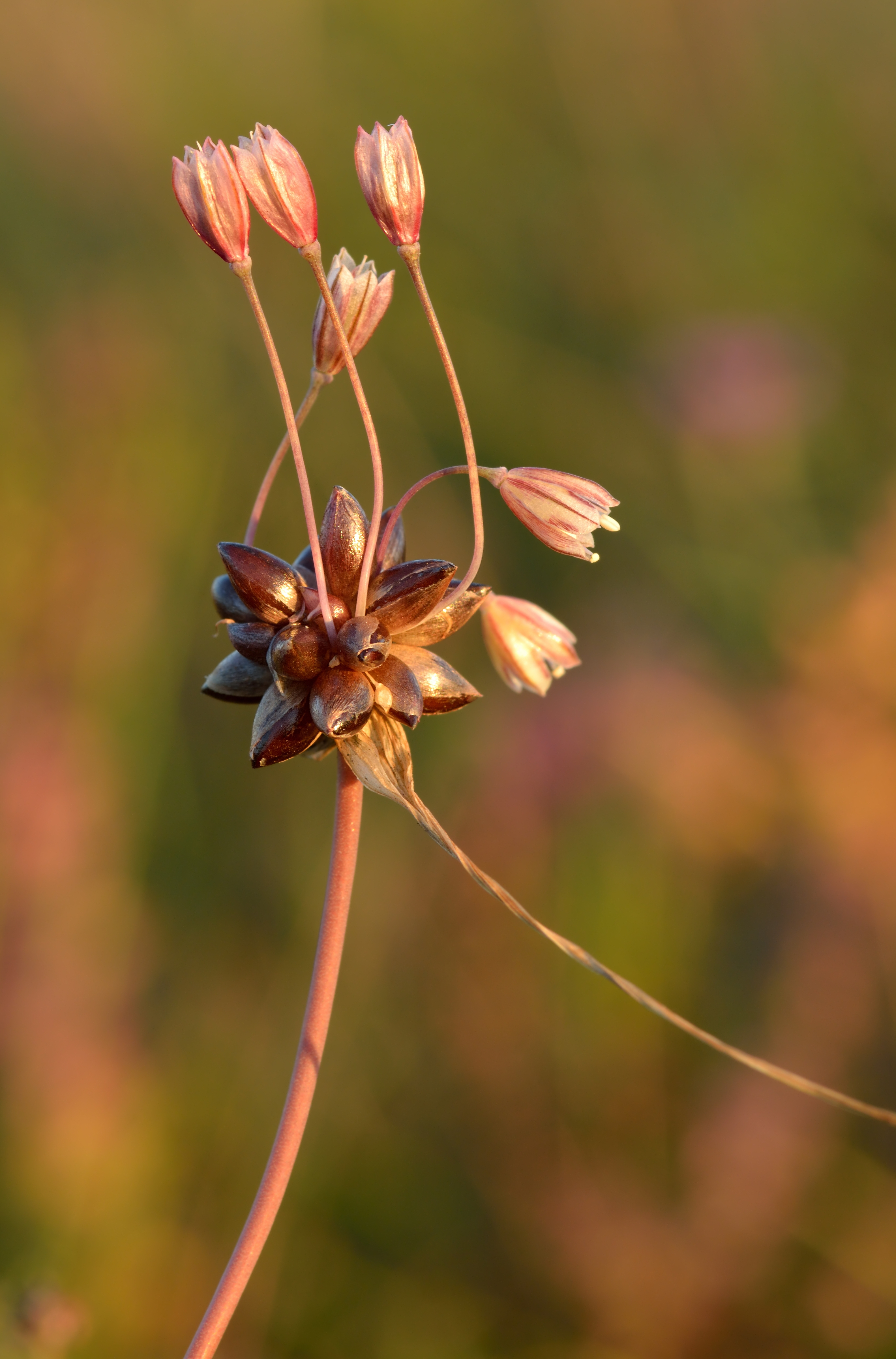 Allium oleraceum - field garlic in Keila, Northwestern Estonia.